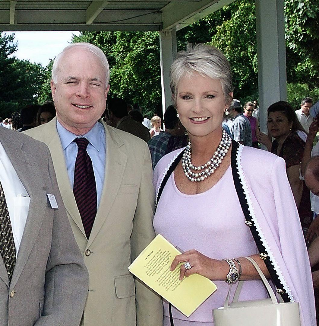 US Senator John McCain III, (R-Arizona) and his wife Cindy McCain pose for a photograph during the Graduation Ceremony for the Naval Sea Cadet Corps summer program. Location: FORT DIX, NEW JERSEY (NJ) UNITED STATES OF AMERICA (USA)